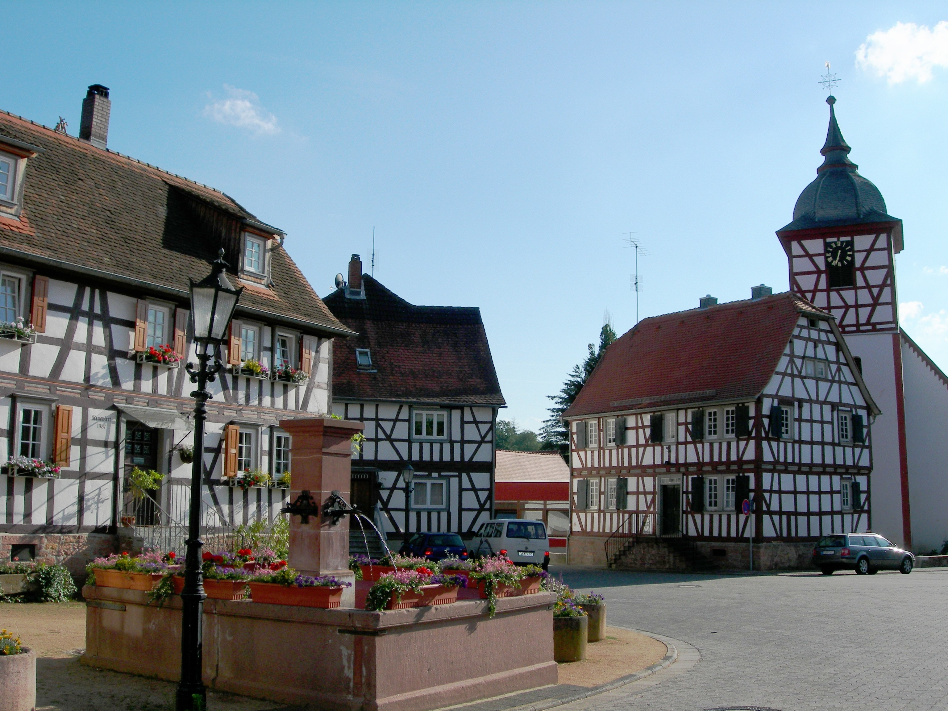 Heubach near Groß-Umstadt (Hesse), historical market square